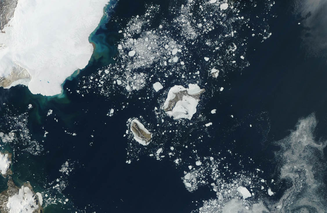 Terra MODIS satellite image of Kong Karls Land, Svalbard